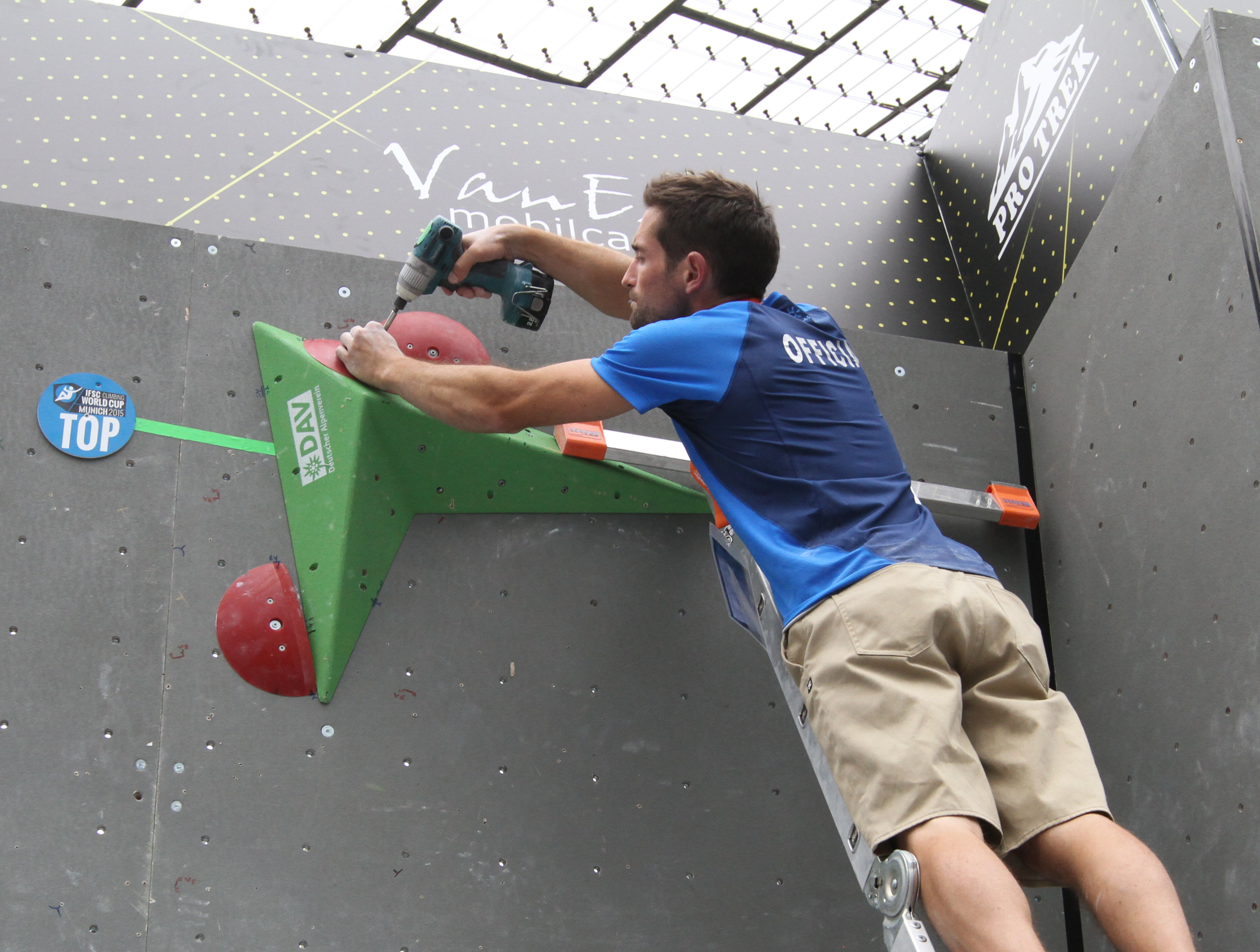 IFSC Boulder Worldcup, Munich 2015. Route setter.